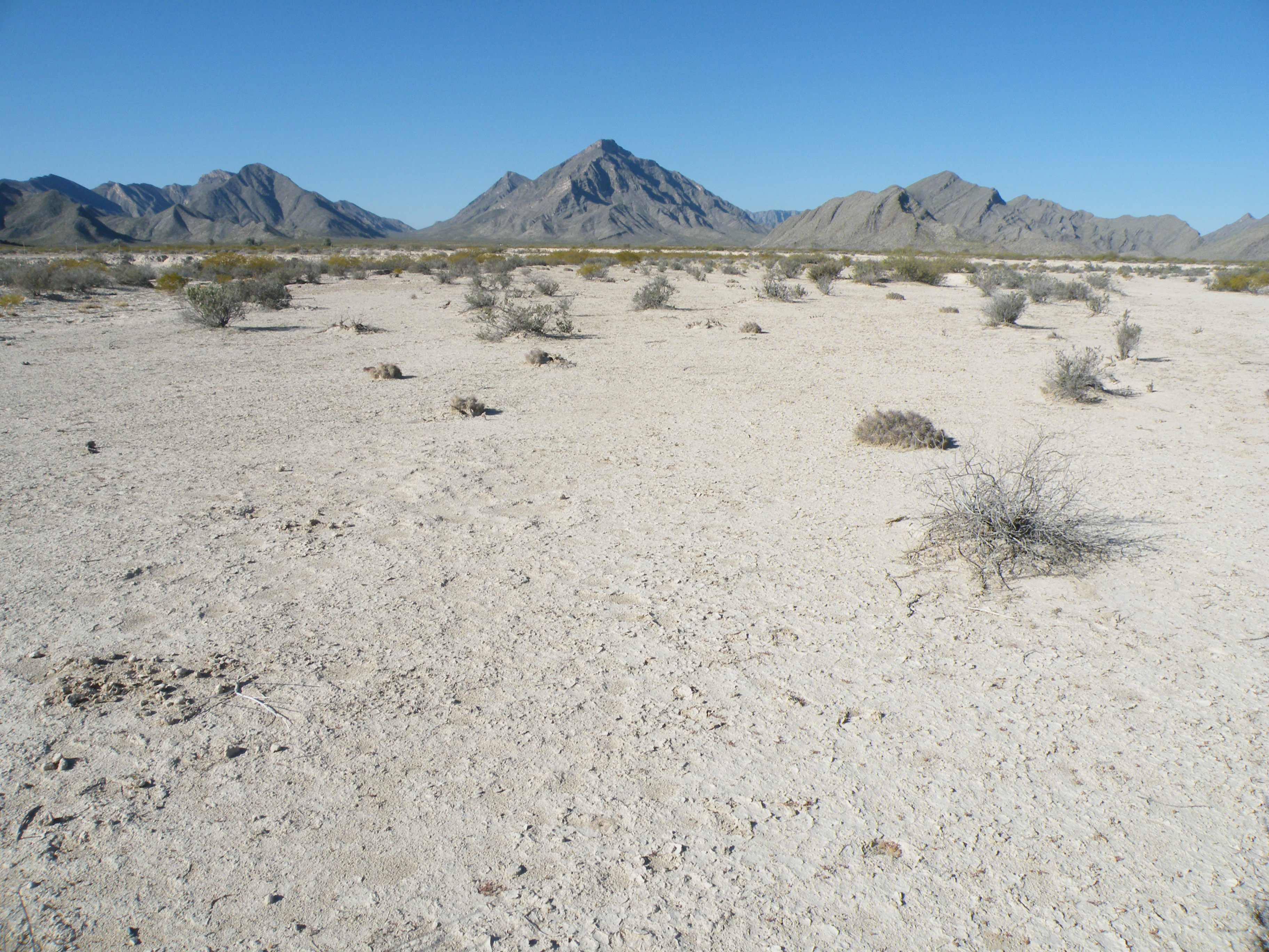 Viesca 2nd hill, Coahuila